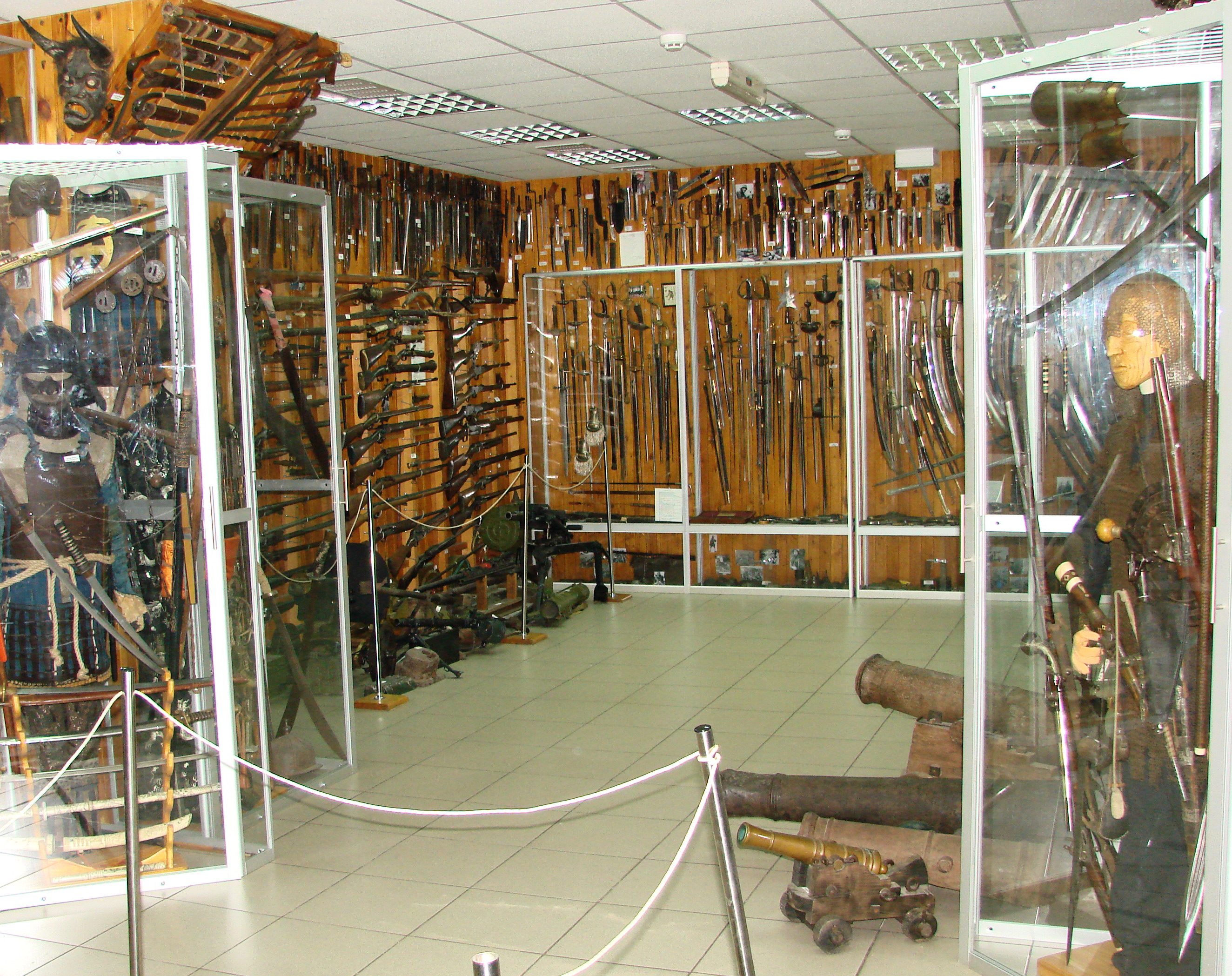 Ukraine, Zaporizhia, Weapon history museum